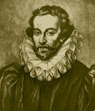 A portrait of Sir Edward Coke